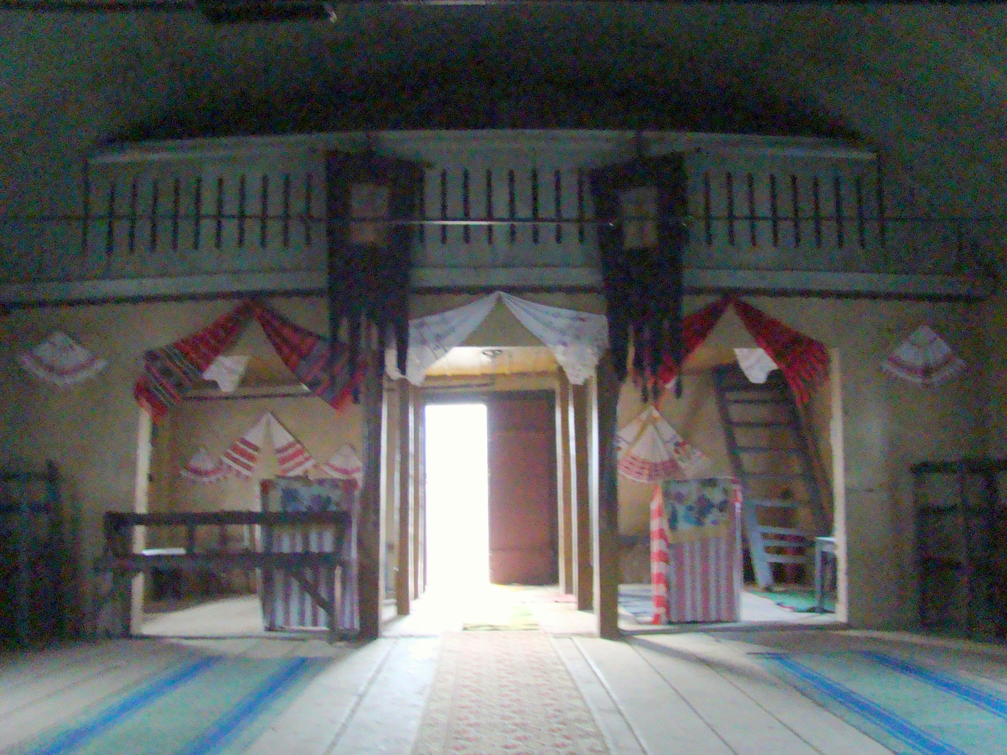 Wooden church in Bărăi, Cluj county, Romania